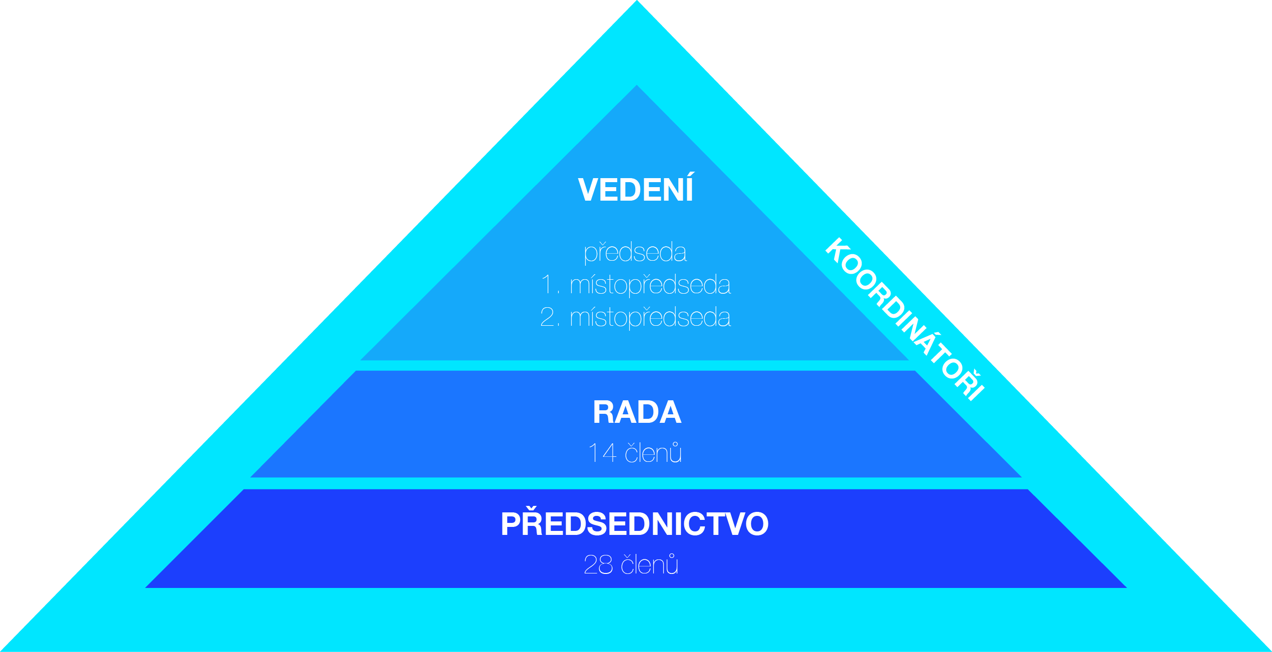 Struktura NPDM CZ